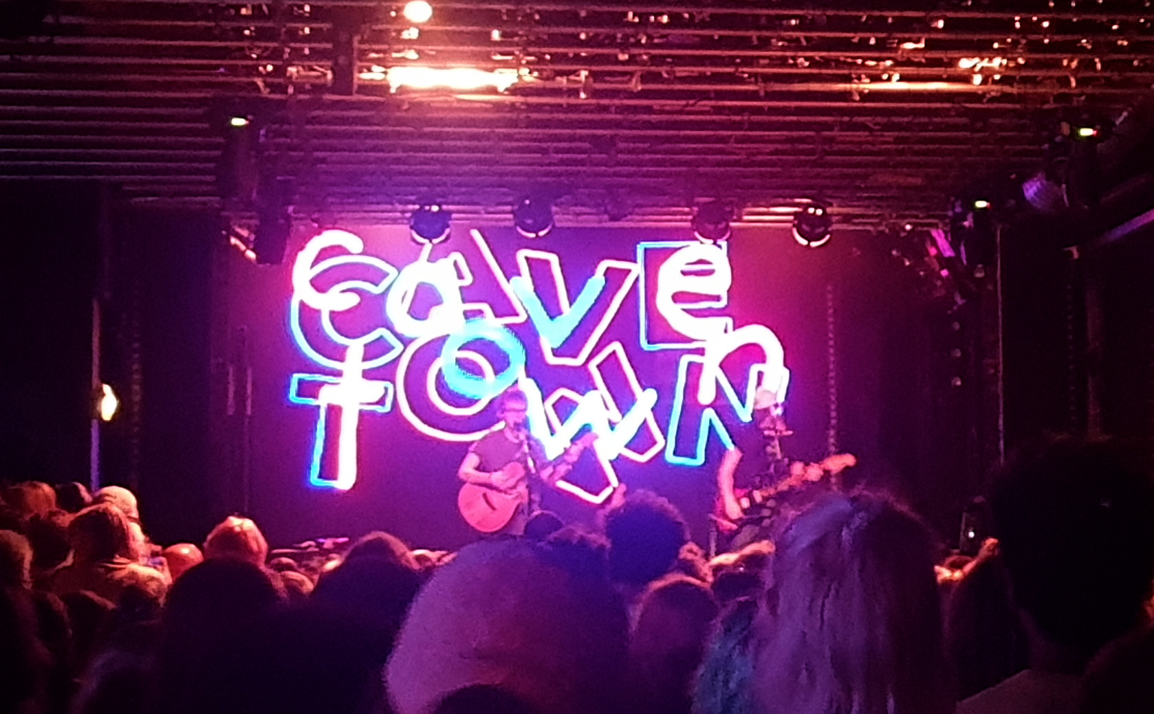 Cavetown performing in Flex, Vienna on August 12, 2019